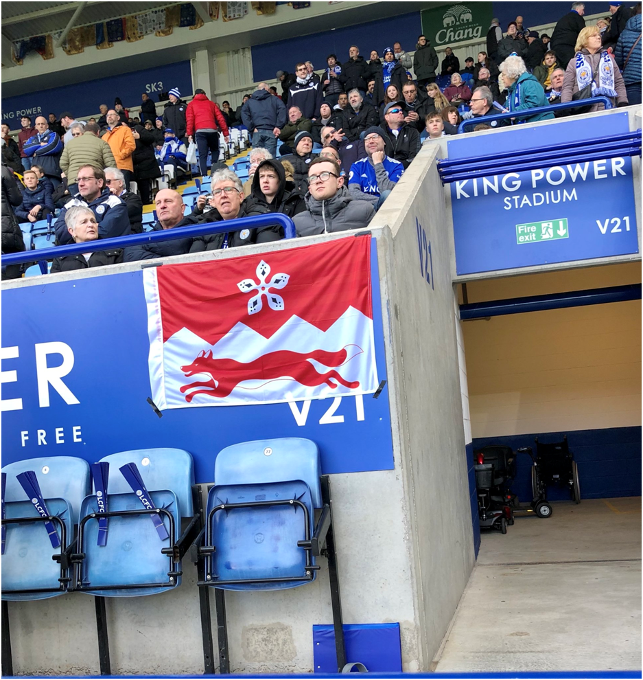 The Leicestershire Fox and Cinquefoil flag on display by Leicester City fans at the King Power Stadium